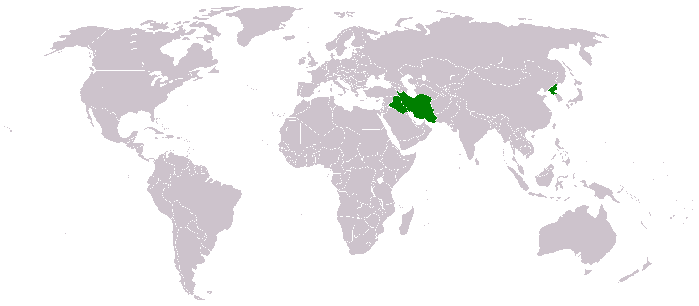 Historical "Axis of evil" map